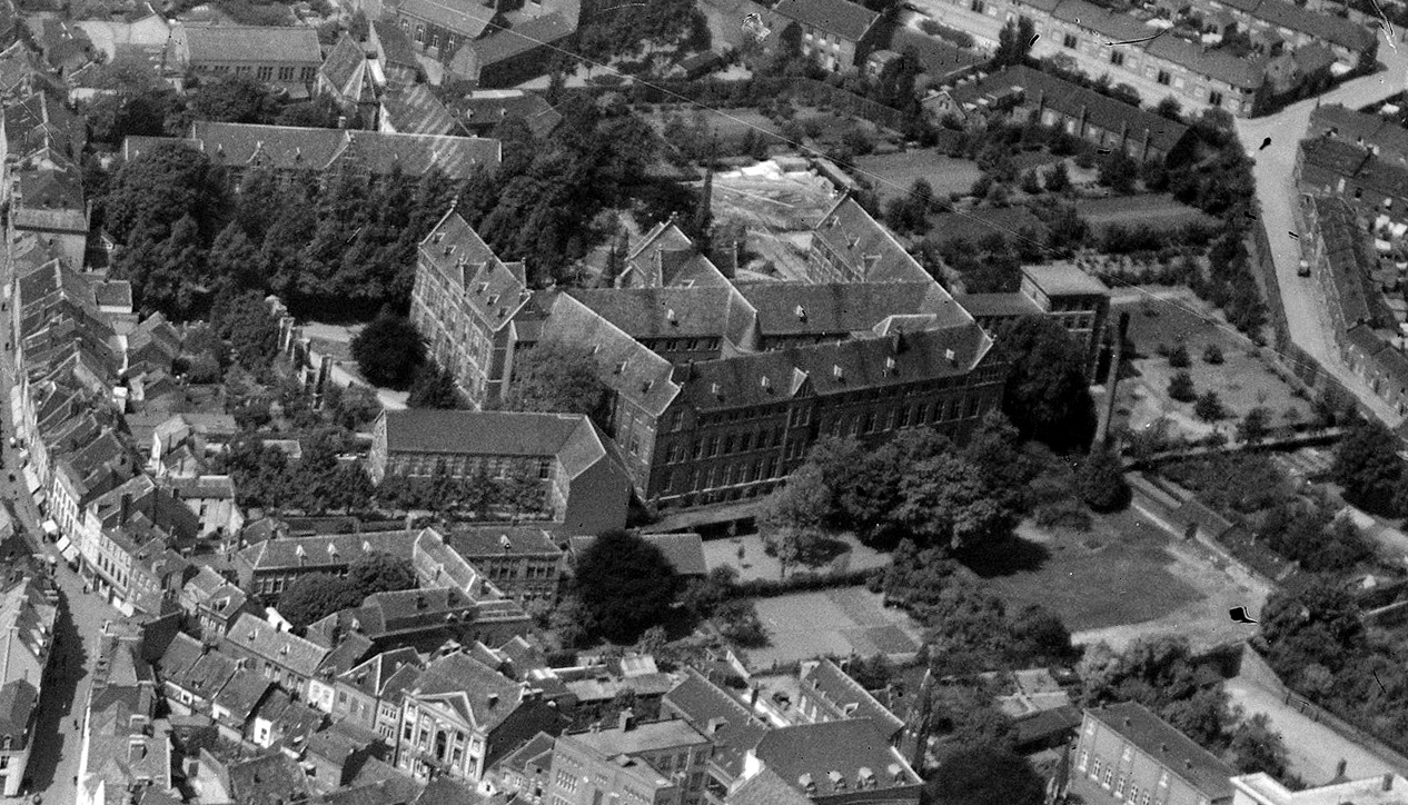 Detail of aerial photograph of Maastricht, The Netherlands, 1937